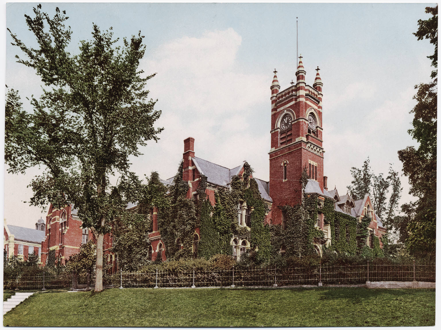 A photochrom postcard published by the Detroit Photographic Company.